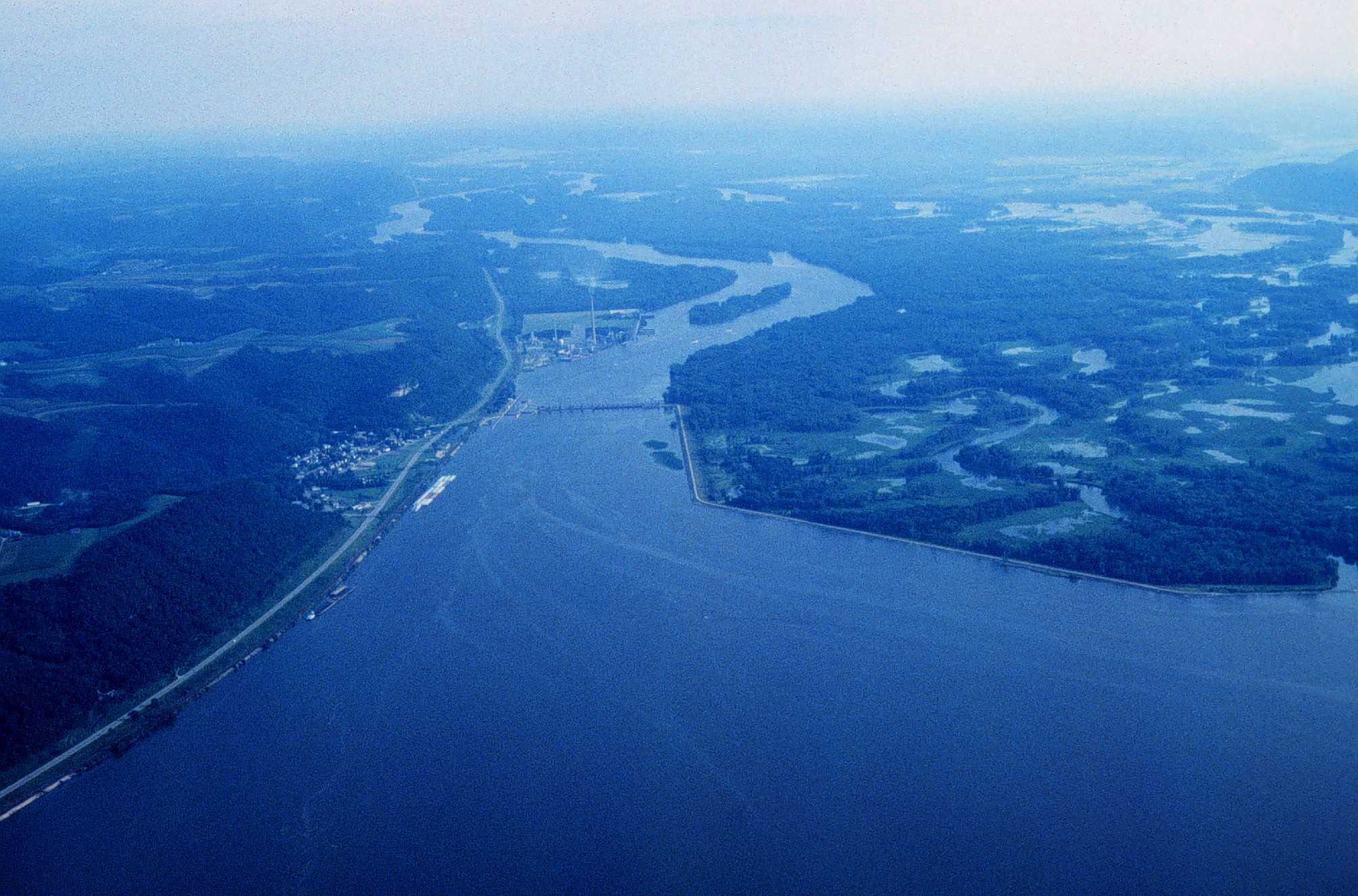 Mississippi River Lock and Dam number 8 near Genoa, Wisconsin